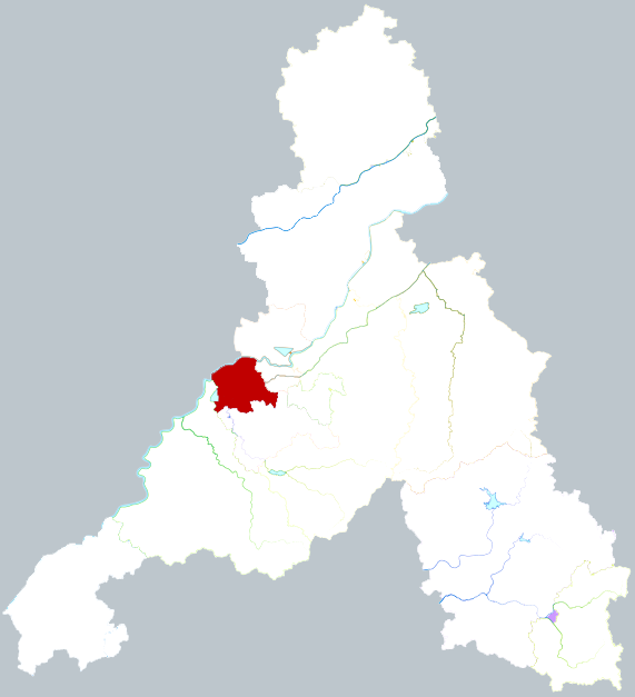 Location of Huayin district in Jinan City, China